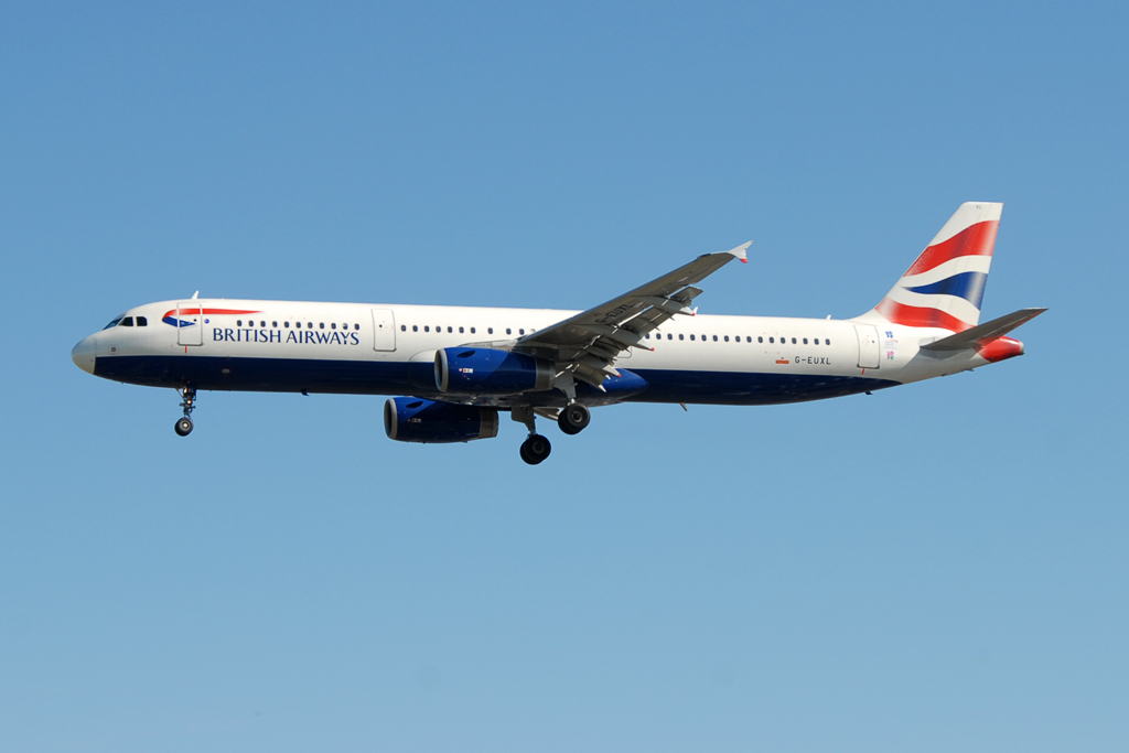 G-EUXL Airbus A321-231 msn 3254 operated by British Airways and seen on short finals for 27R at London Heathrow (LHR/EGLL).